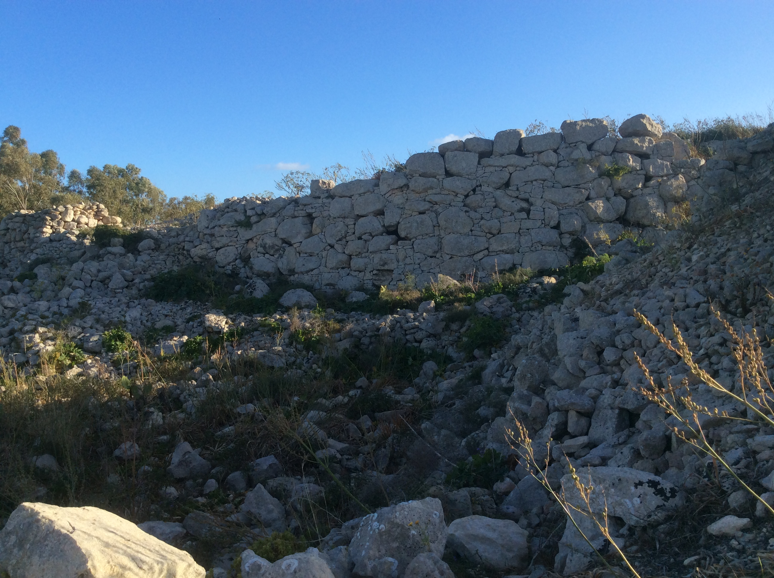 Borg in-Nadur ruins